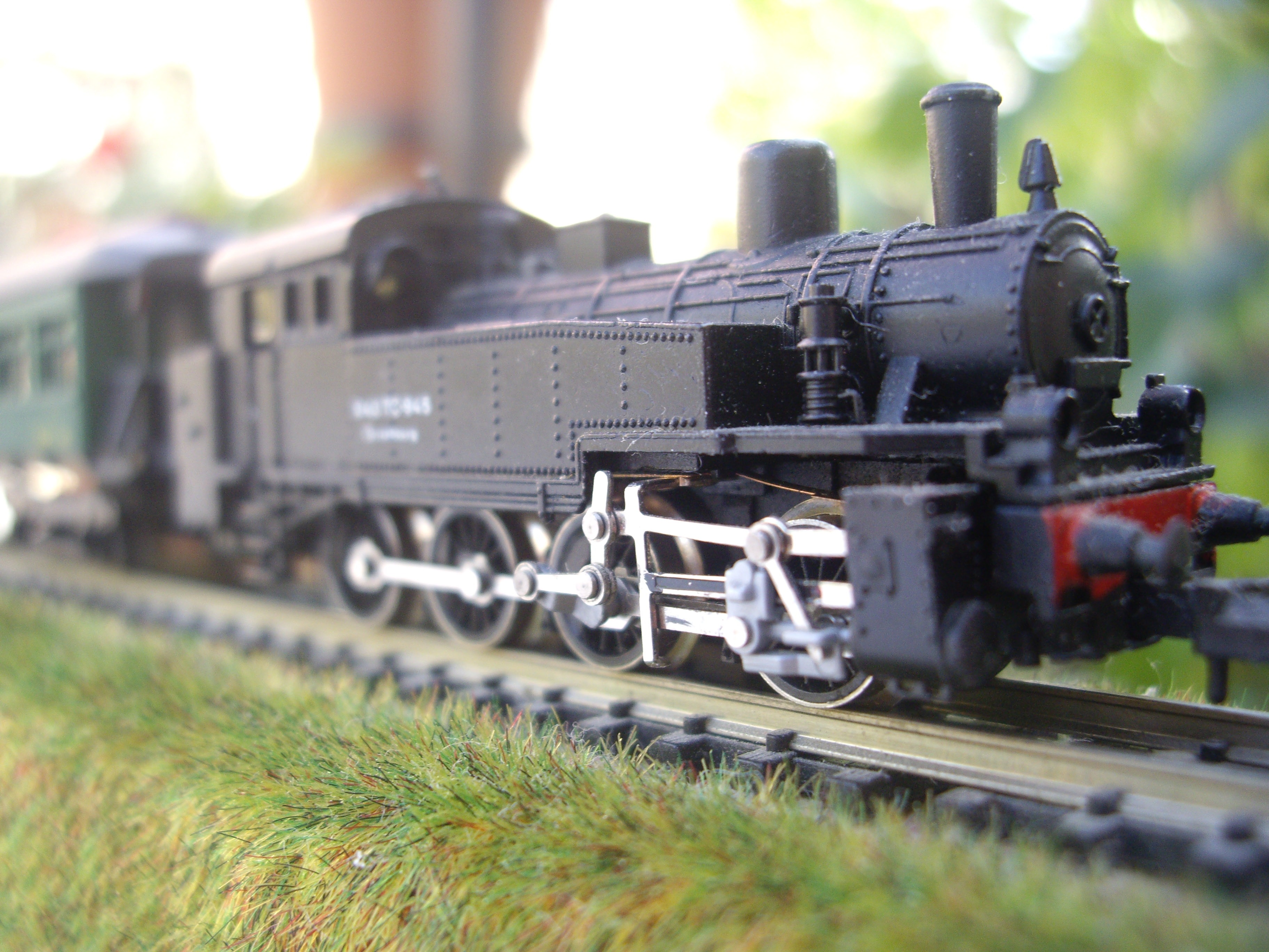 N scale model of the steam locomotive SNCF 040 TC 945 by Spanish modelmaker IBERTREN